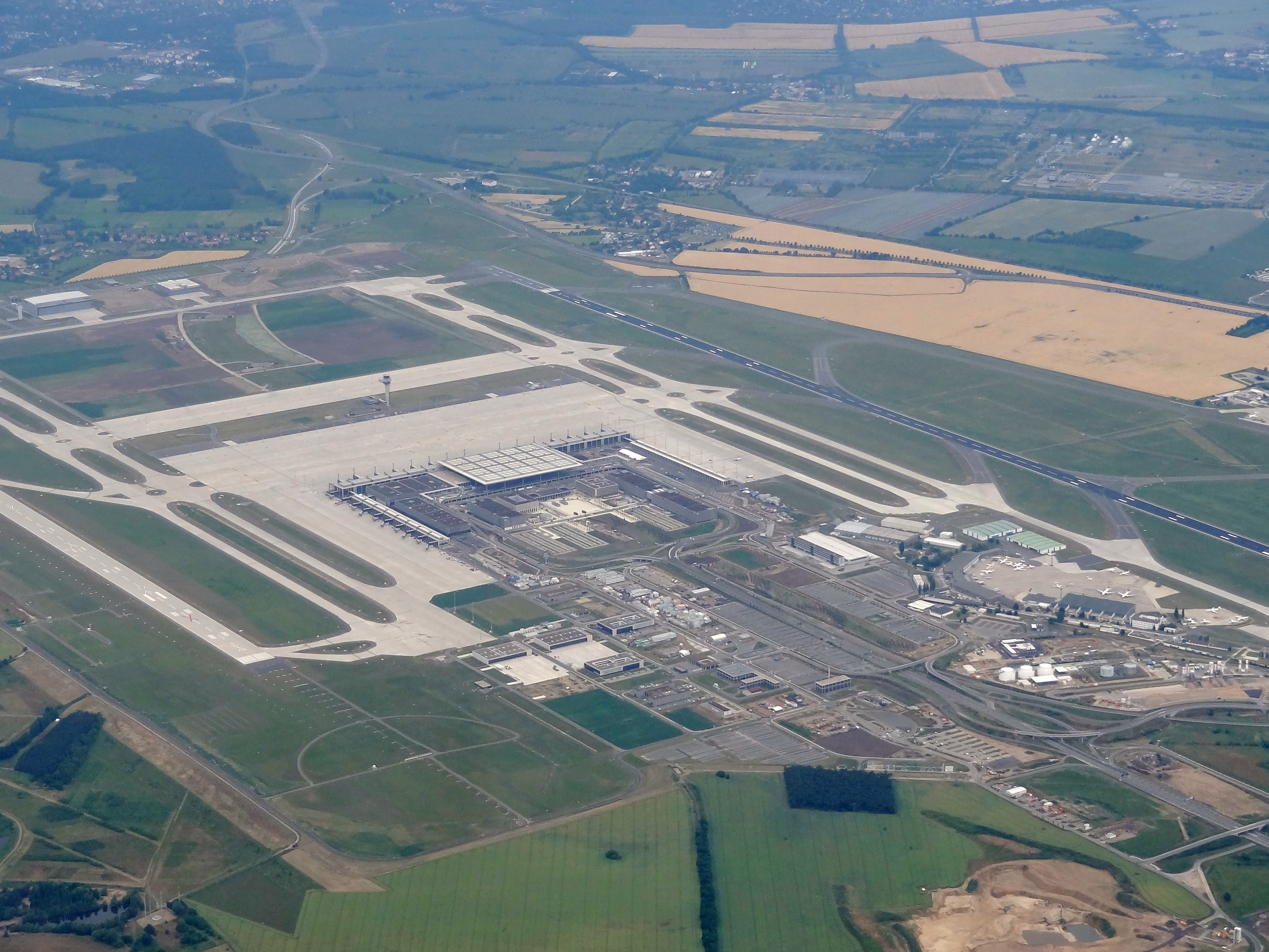 View of the Berlin Brandenburg airport's construction site, Brandenburg, Germany.